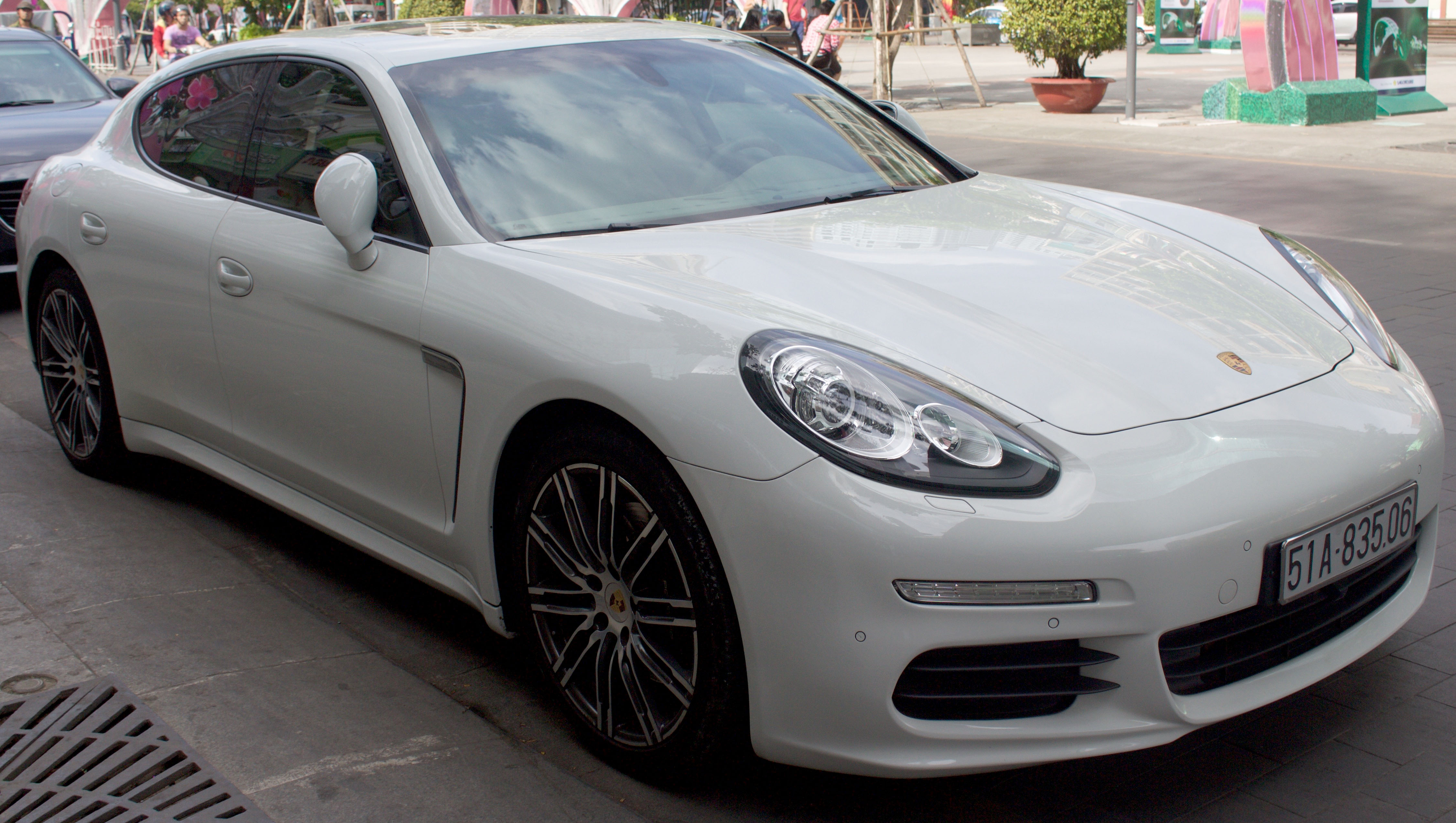 Porsche Panamera 970, facelift, photographed in Ho Chi Minh City, Vietnam